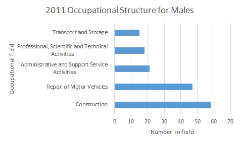 This image show the main occupational structures in Roxwell at the time of the 2011 census